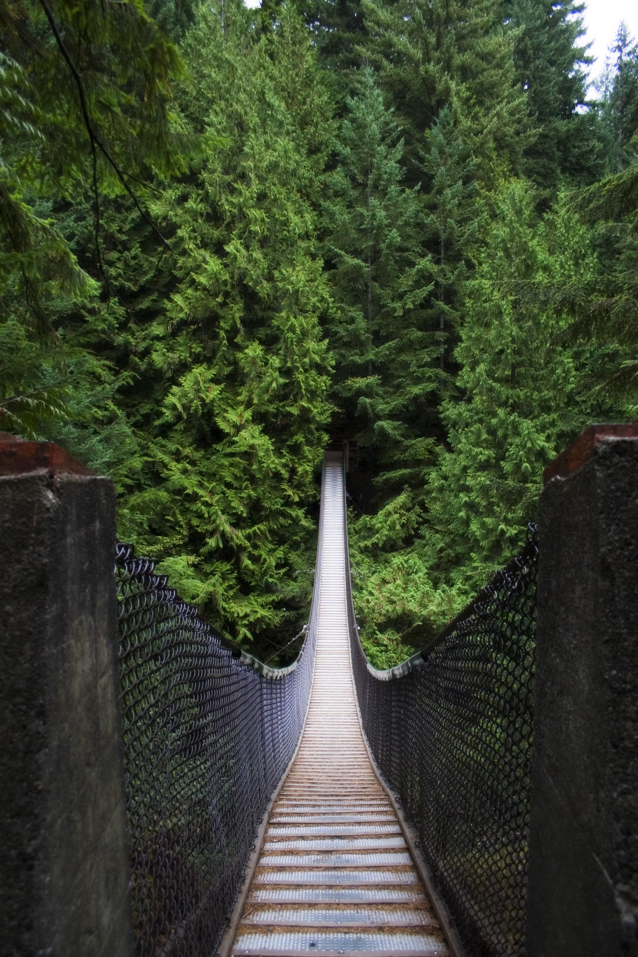 Lynn Creek Canyon Suspension Bridge